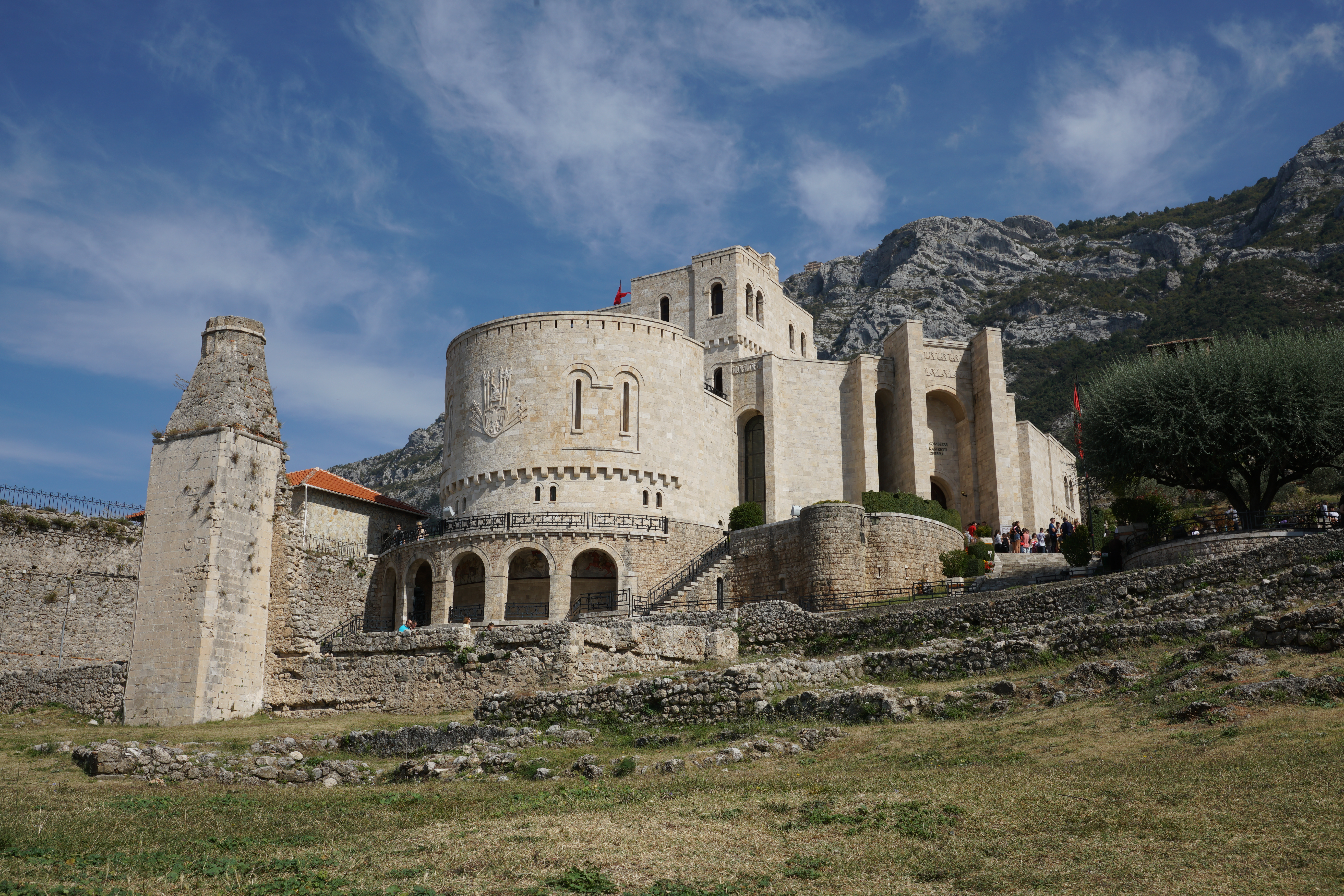 National Museum Gjergj Kastrioti Skënderbeu in Kruja